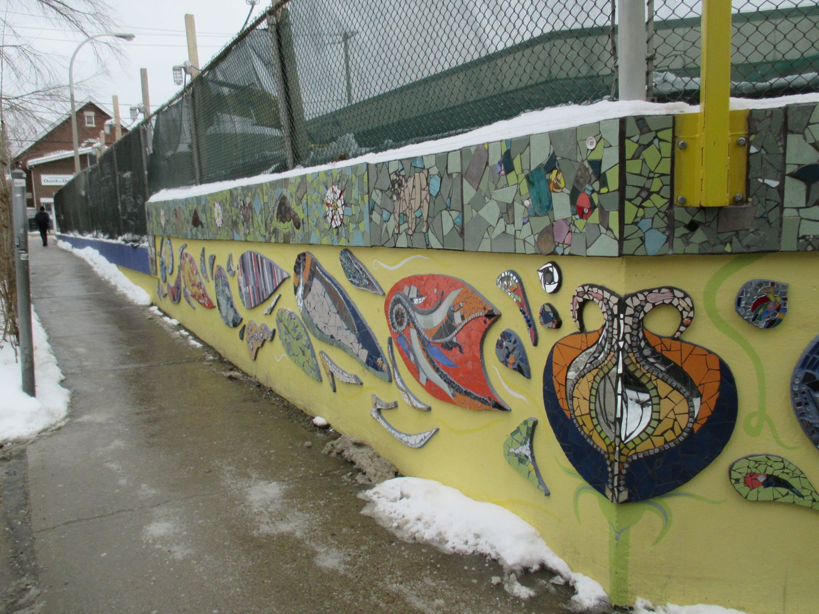 Coxwell Laneway Mosaic Mural along a pedestrian walkway: The mural hangs on a barrier separating the walkway from the Coxwell subway station bus loop.